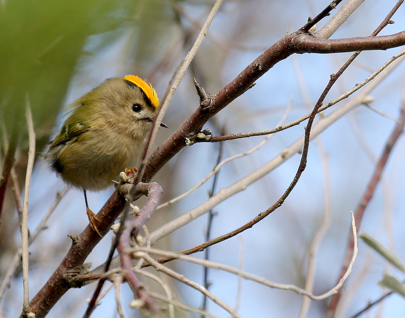 A male Goldcrest in Vendée, France